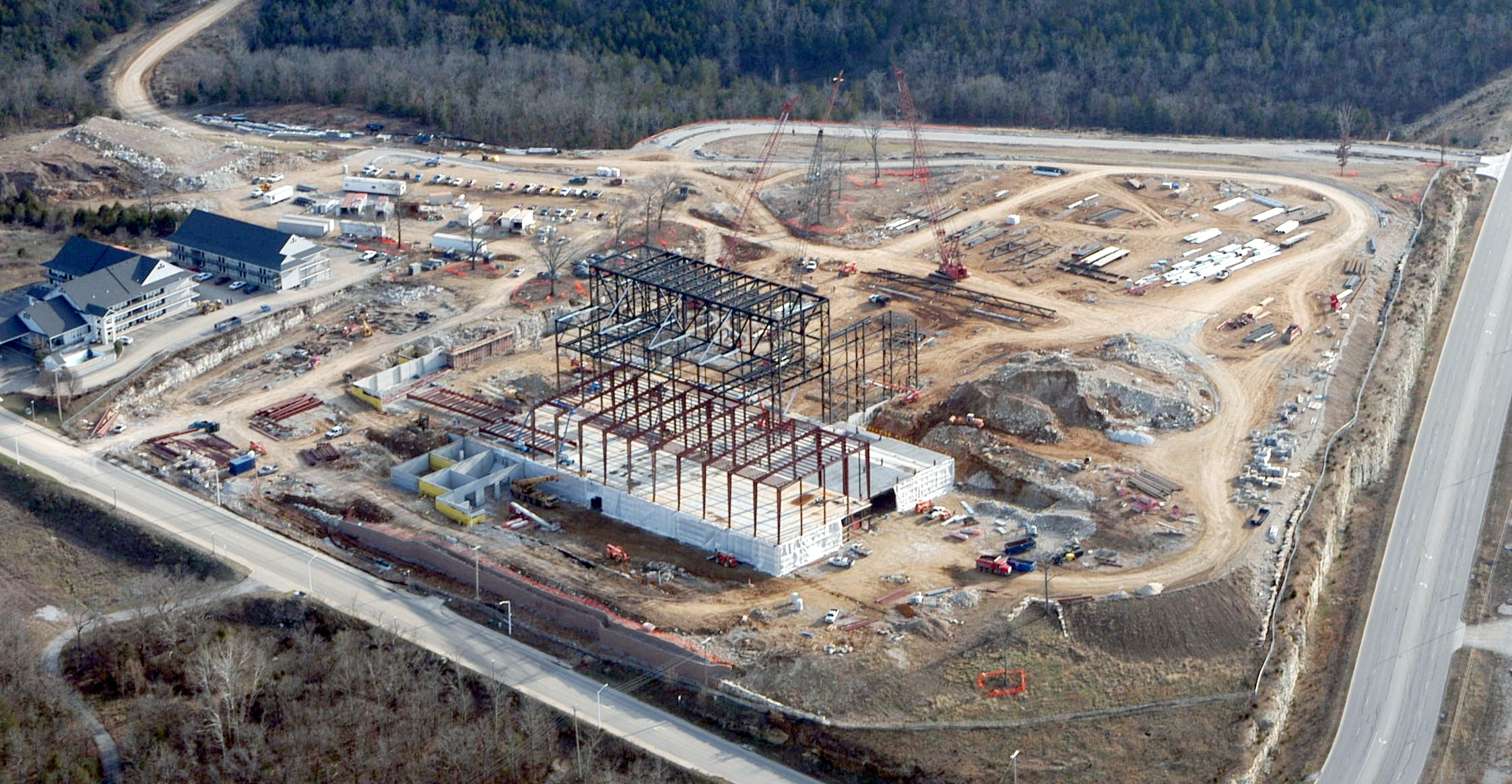 AP of commercial building under construction for use in an appraisal article